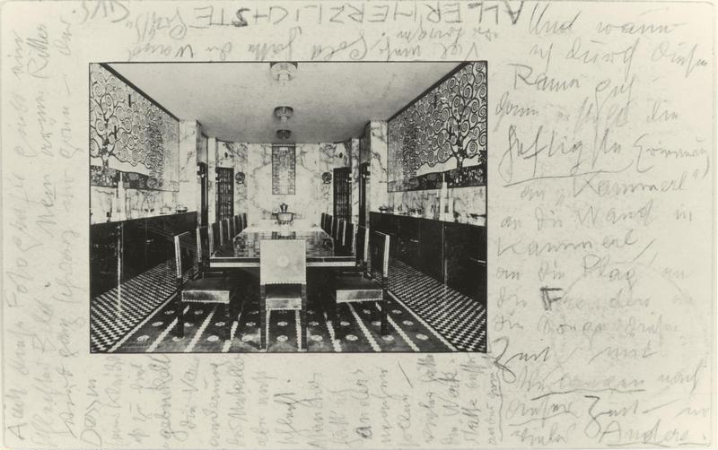 Postcard written by Gustav Klimt to Emilie Flöge with the dining room of the Palais Stoclet, 18 May 1914